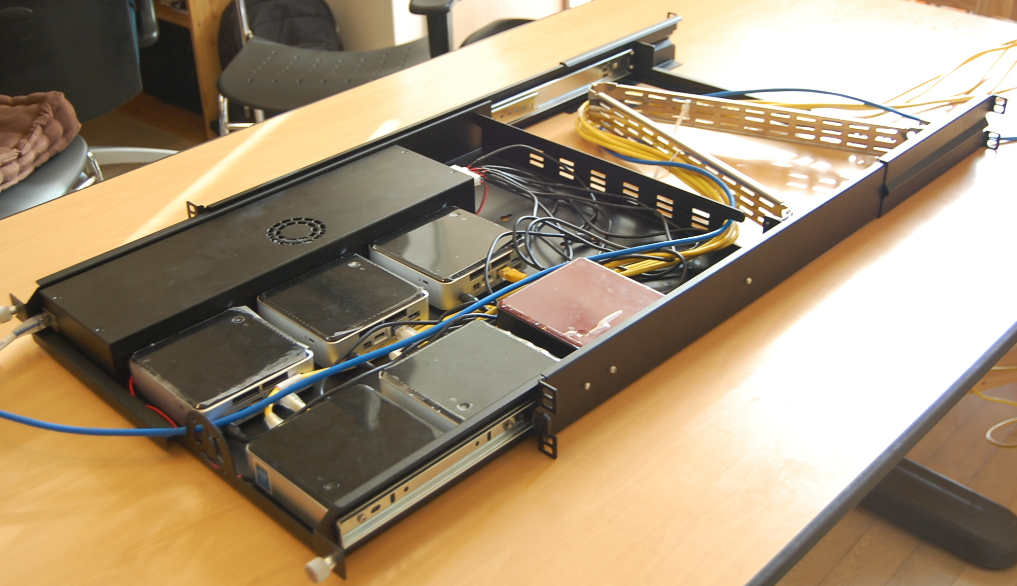 NUCserver universal solution 6